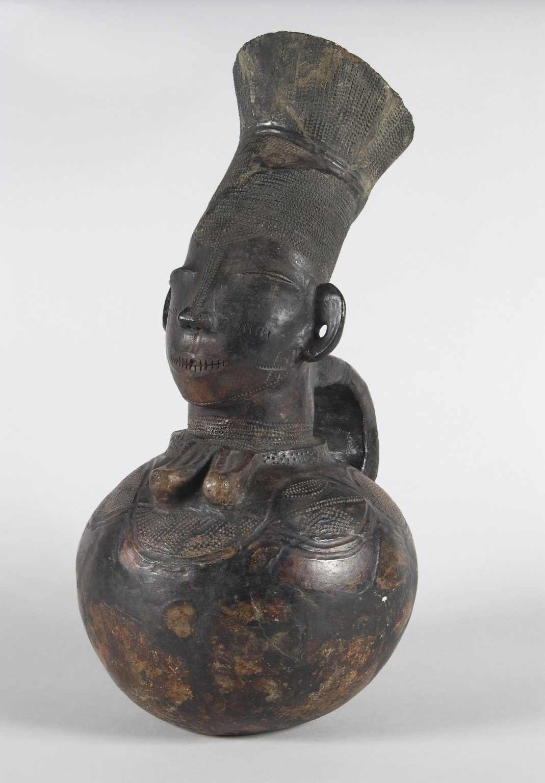 Anthropomorphic Vessel